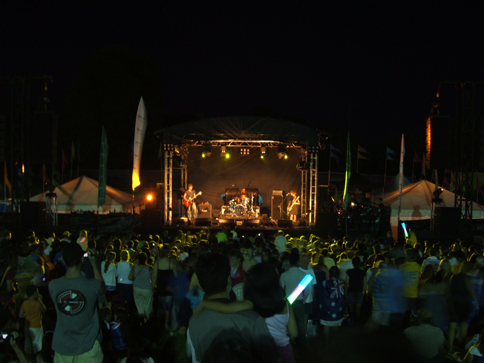 Spiderbait playing at the 2008 Australia Day Concert in Parramatta Park, Sydney, Australia